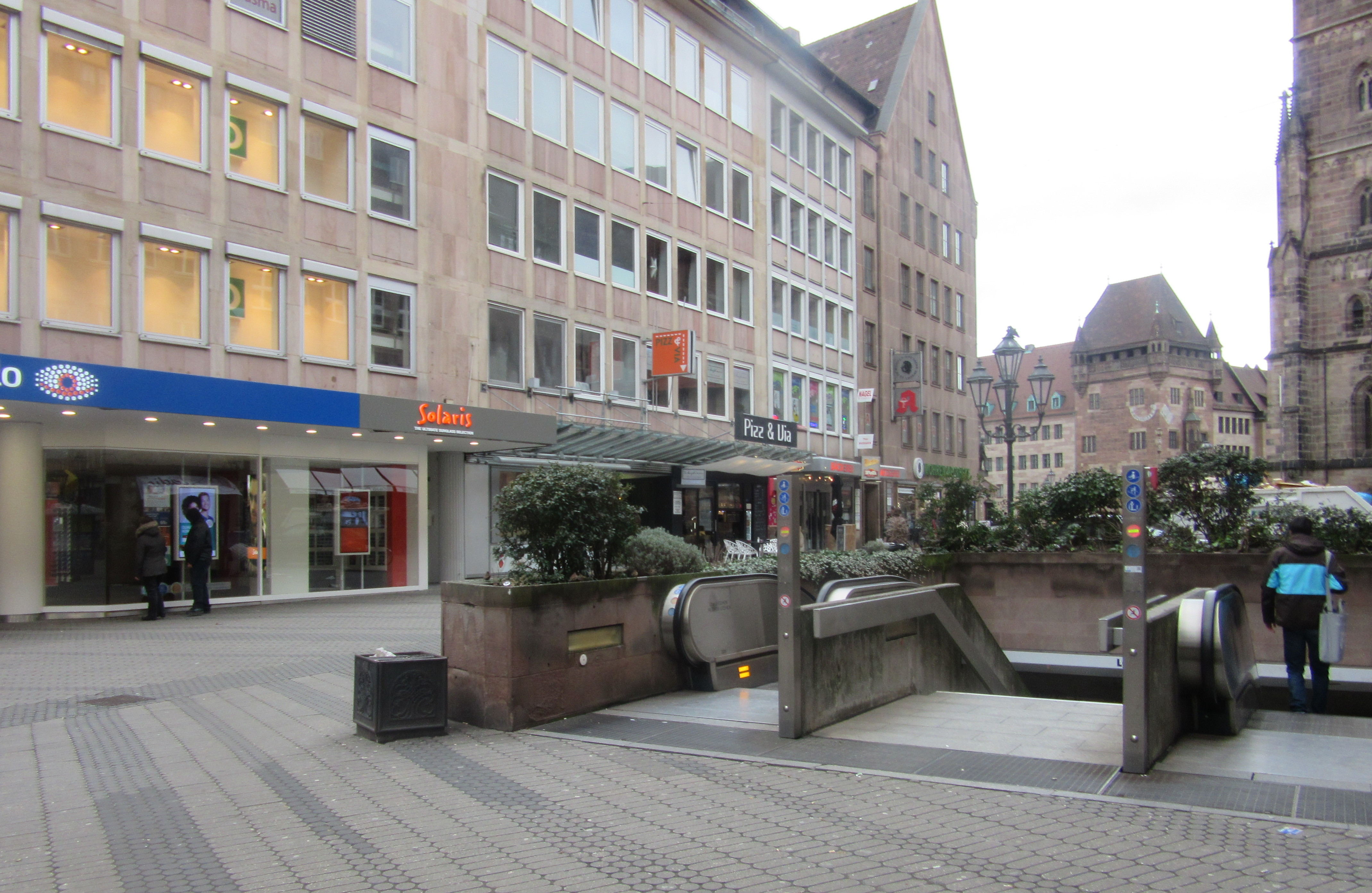 This is a subway station in Nuremberg.